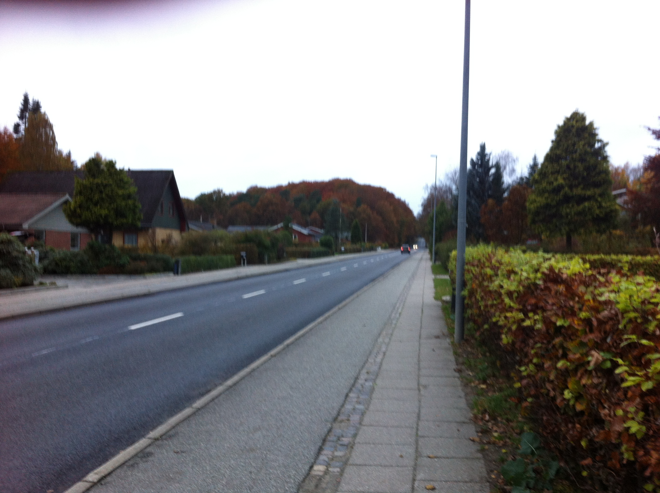 Himmerlandsgade set mod Hadsund N & NV